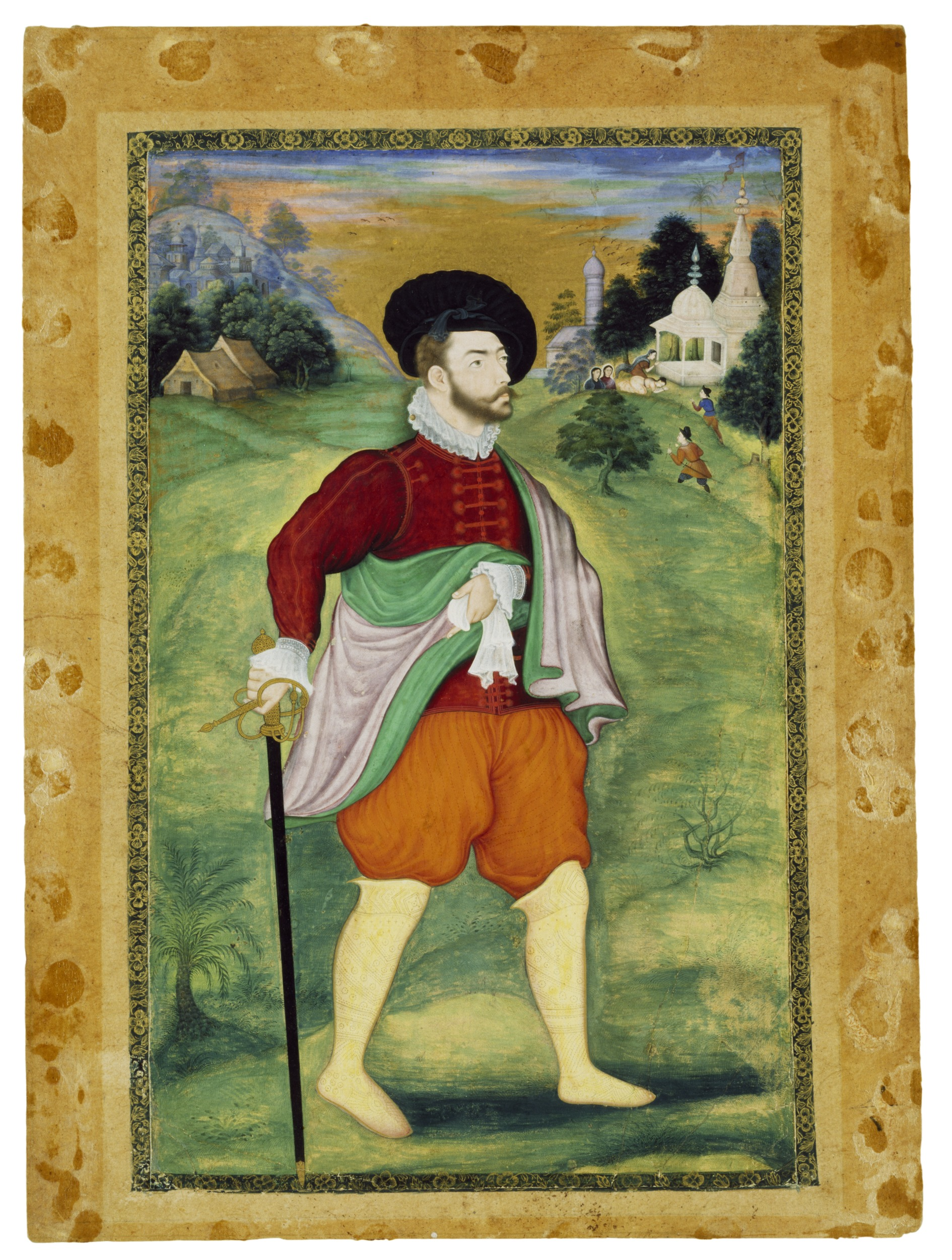 Europeans first came to the Mughal empire in the late 1570s. By the early 1600s, there was regular contact between the Mughal court and Portuguese Goa, and merchants and adventurers came overland or by sea from Europe. A few of them took up residence at court. Their presence led to the occasional appearance of European figures in Mughal paintings or on the border decoration of manuscripts. This painting, which on stylistic grounds dates to about 1610, is unlikely to be a contemporary portrait of a 17th-century European visitor to the Mughal court, however. Details of his dress (the pinked boots and the open-fronted ruff) are seen in European portraits of the 1580s, while the hilt of the rapier may date from as early as the 1560s, suggesting that the Mughal artist used a painting as his model.